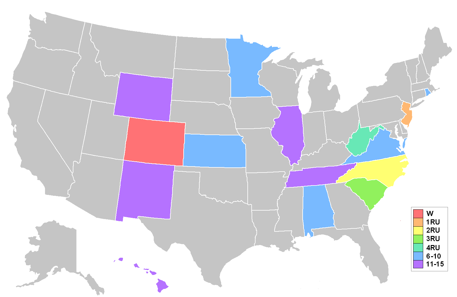 Map showing placements at the Miss Teen USA 2007 pageant. Key on graphic shows colour coding for break down of placements.